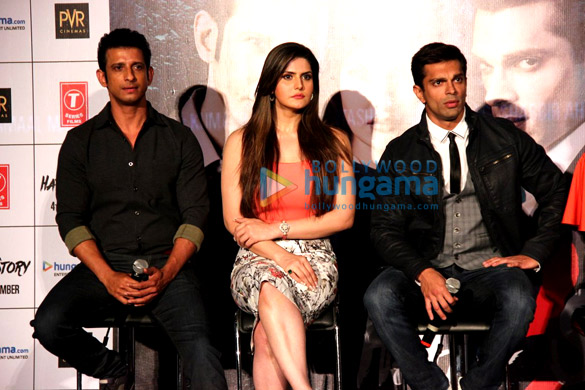 Starcast of Hate Story 3 at Trailer Launch, from left Sharman Joshi, Zareen Khan and Karan Singh Grover.